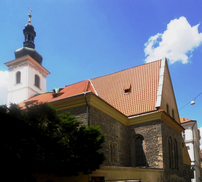 Prague 1 St Michael church JIrchare